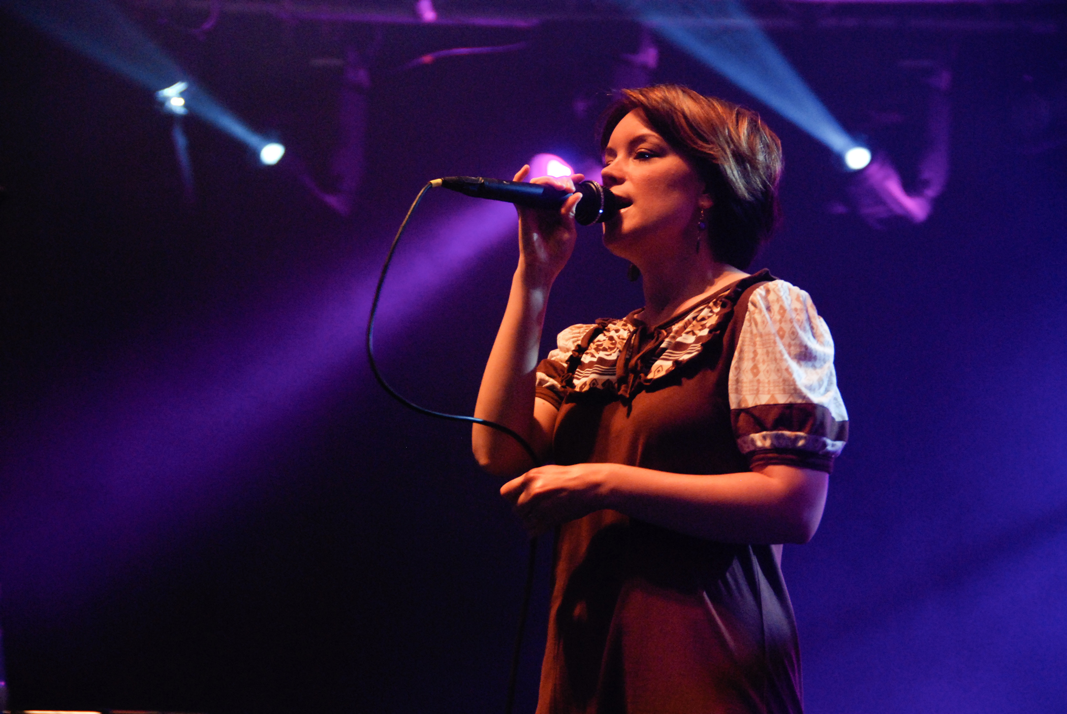 Vocalist Emma Salokoski performing with Emma Salokoski Ensemble at the Ilosaarirock festival on the 15th of July 2007 in Joensuu, Finland.